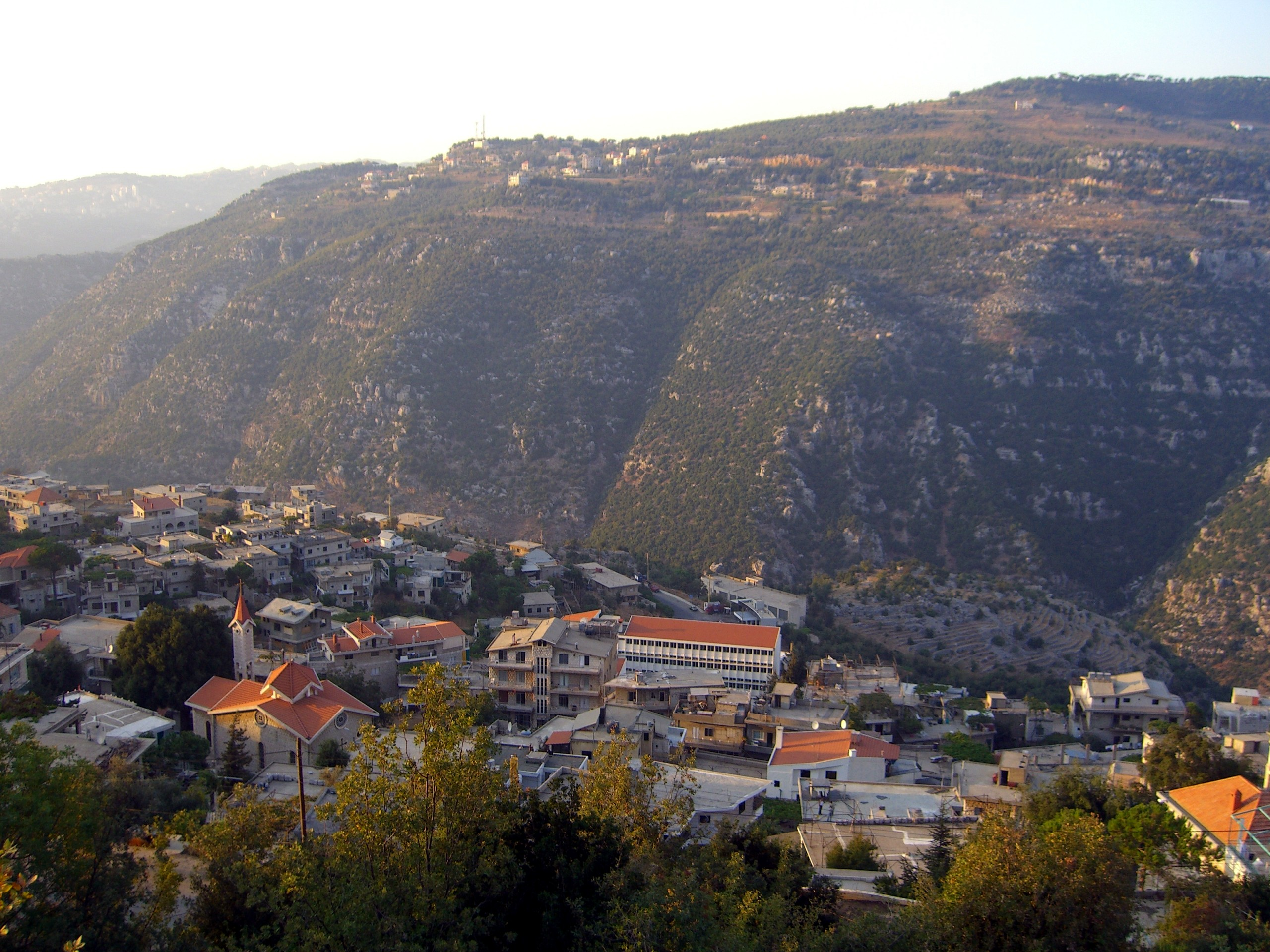 A view of the town of Bteghrine, lebanon from the huge circular rock (Sheer Al-mabroum) above St. George Church. Photo taken Summer 2005